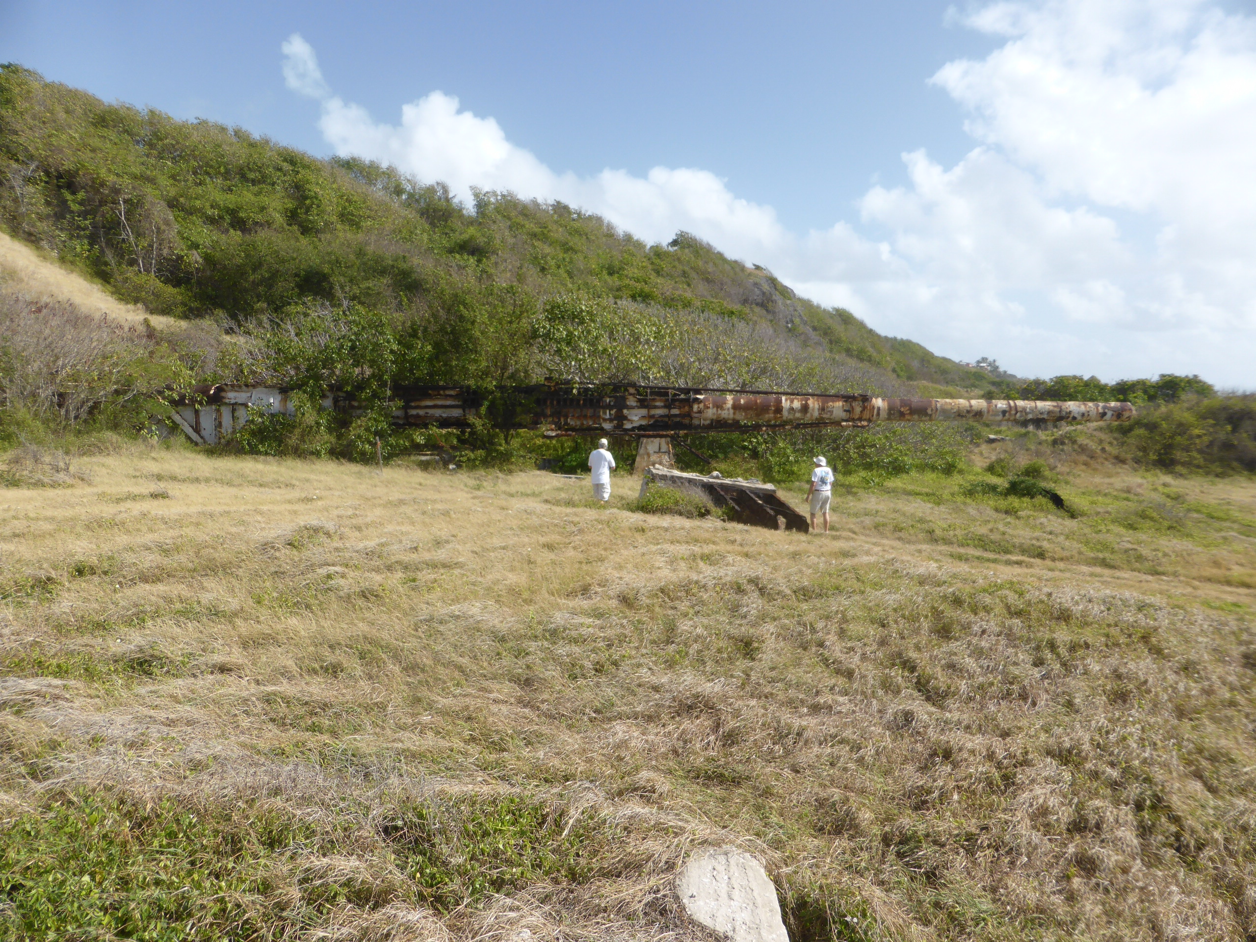 This enormous gun is well within the danger zone. Rich and John are both over one hundred and ninety centimetres tall and nearer the camera. The guns were transported overland via a purpose-built railway that is no longer extant. A second barrel was shipped to the site in 1965 and attached and strengthened with external bracing to allow it to be raised from the horizontal.